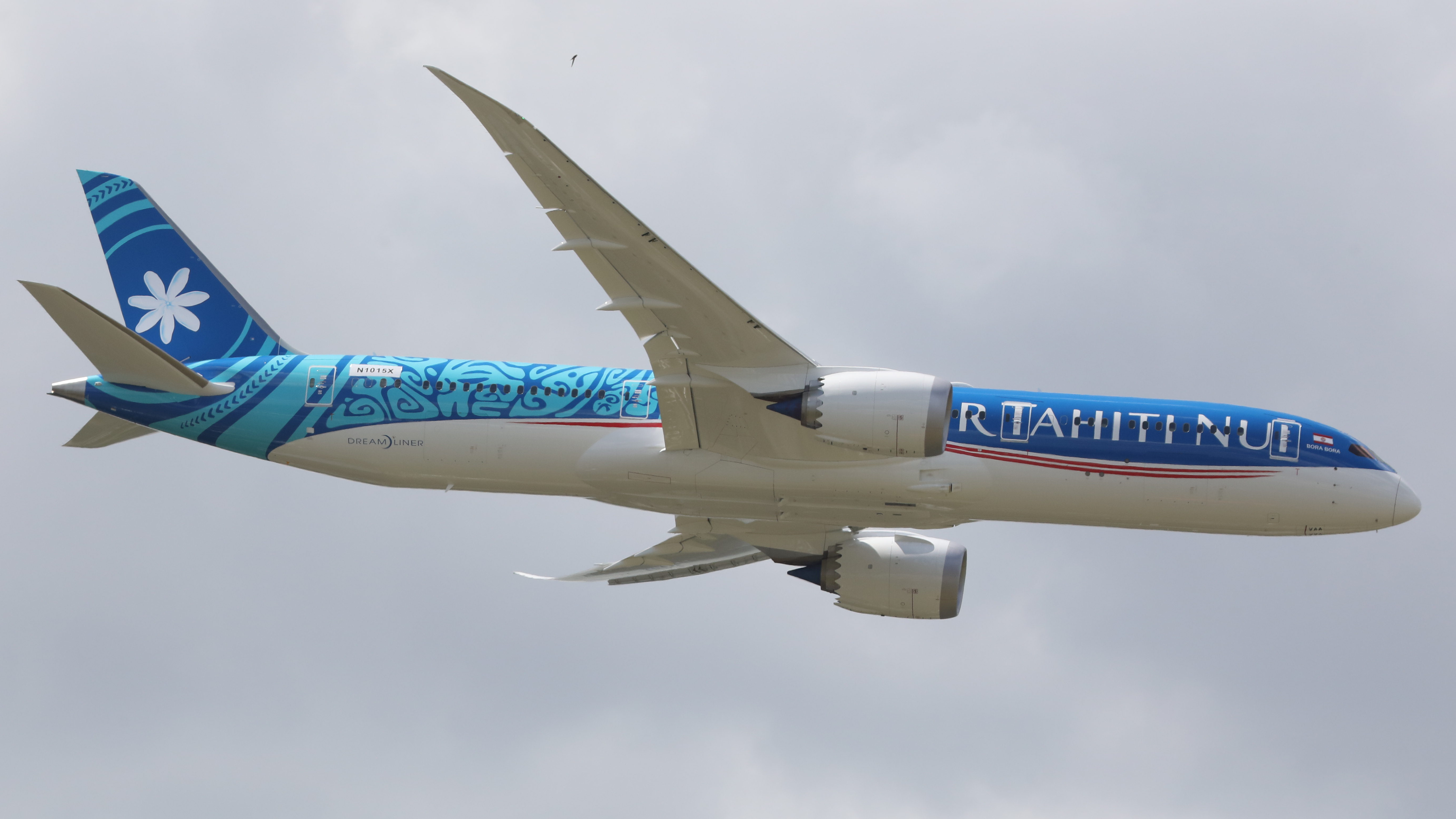 Paris Air Show 2019